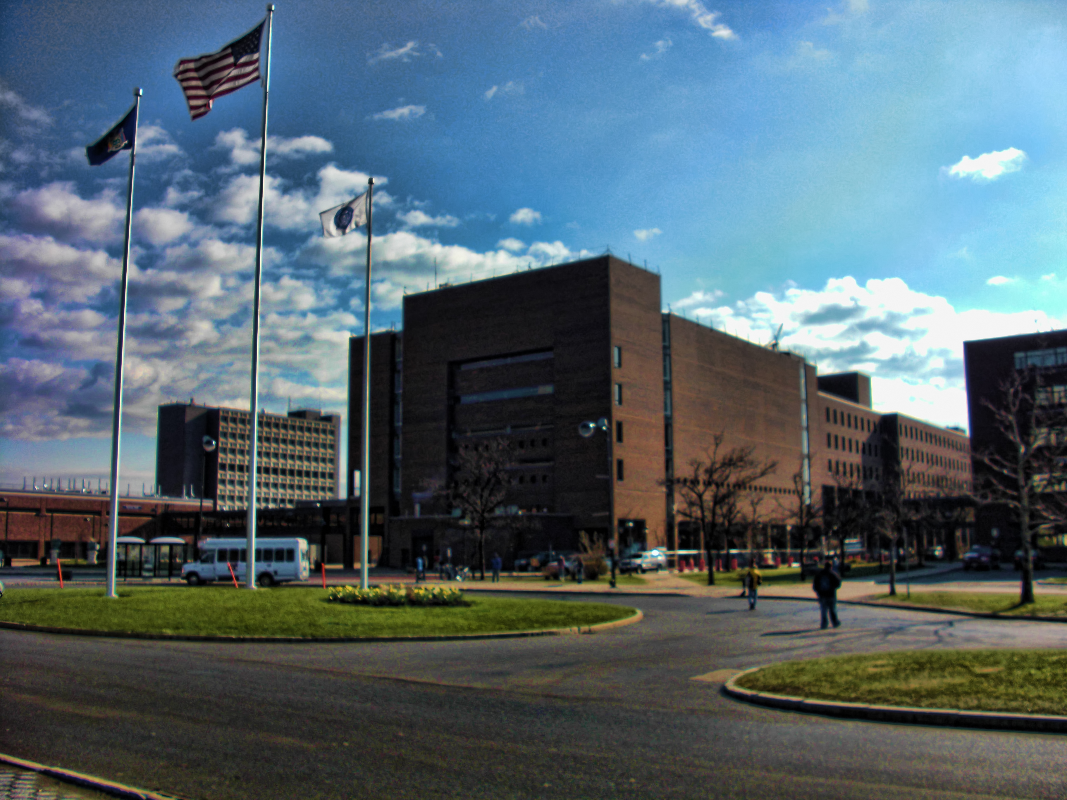 O'Brian Hall at the University at Buffalo North Campus